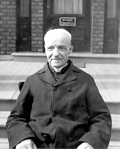 Brother André (born Alfred Bessette), ca. 1920.